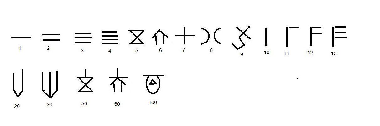 oracle decimal numerals